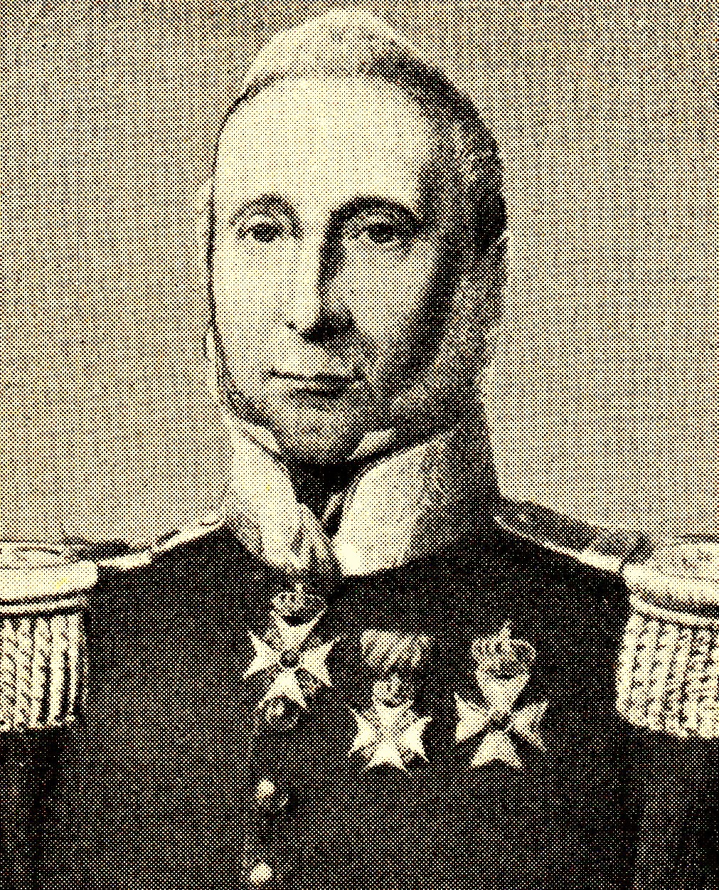 Gouverneur generaal DJ de Eerens